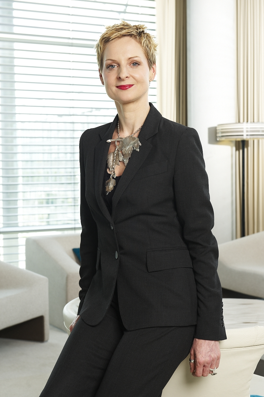 Corporate Headshot for a.bridge collective, a company that delivers cross media process management and usage and adoption of technology